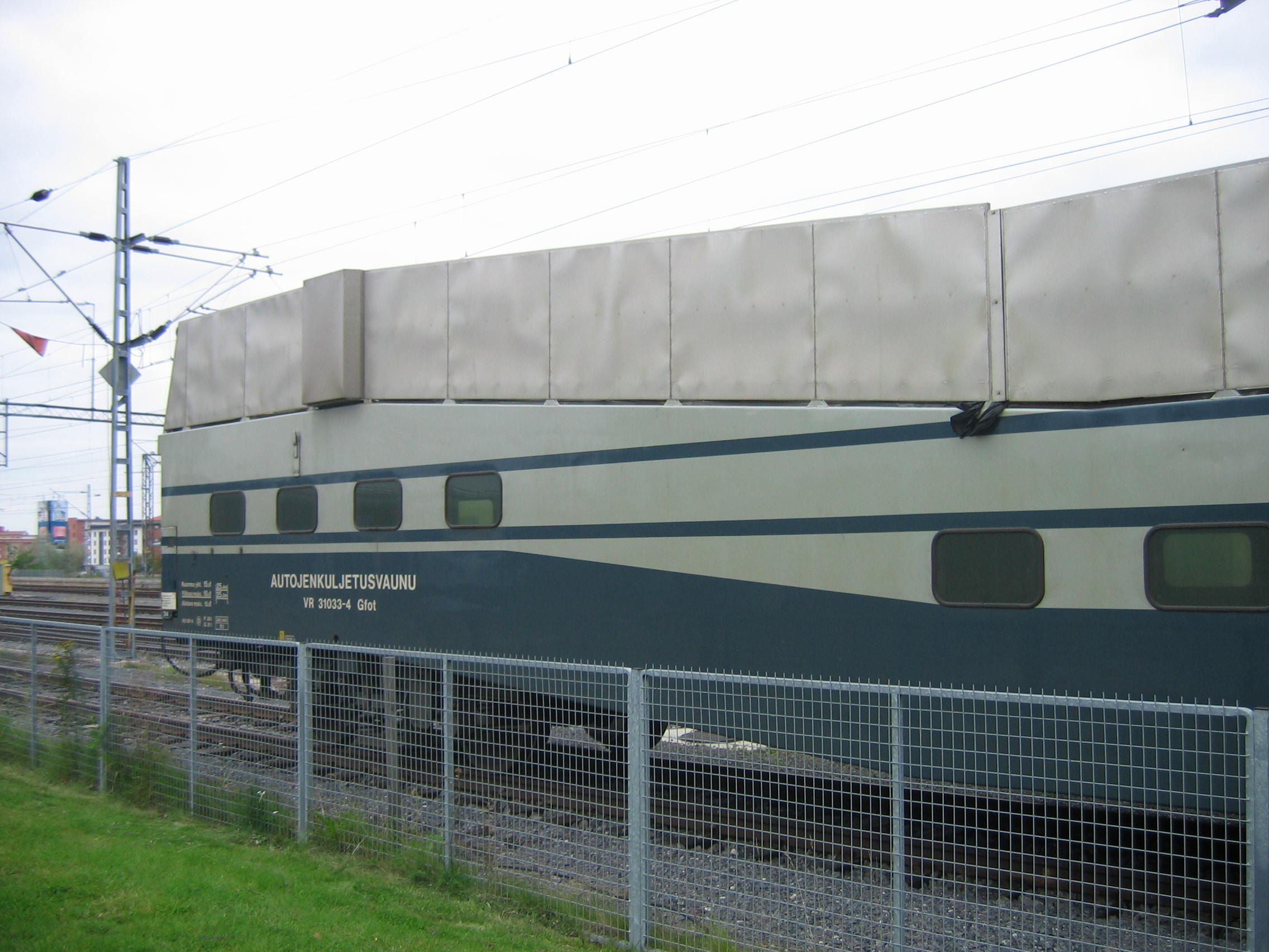 A train car used to transport automobiles by the Finnish Railways VR.